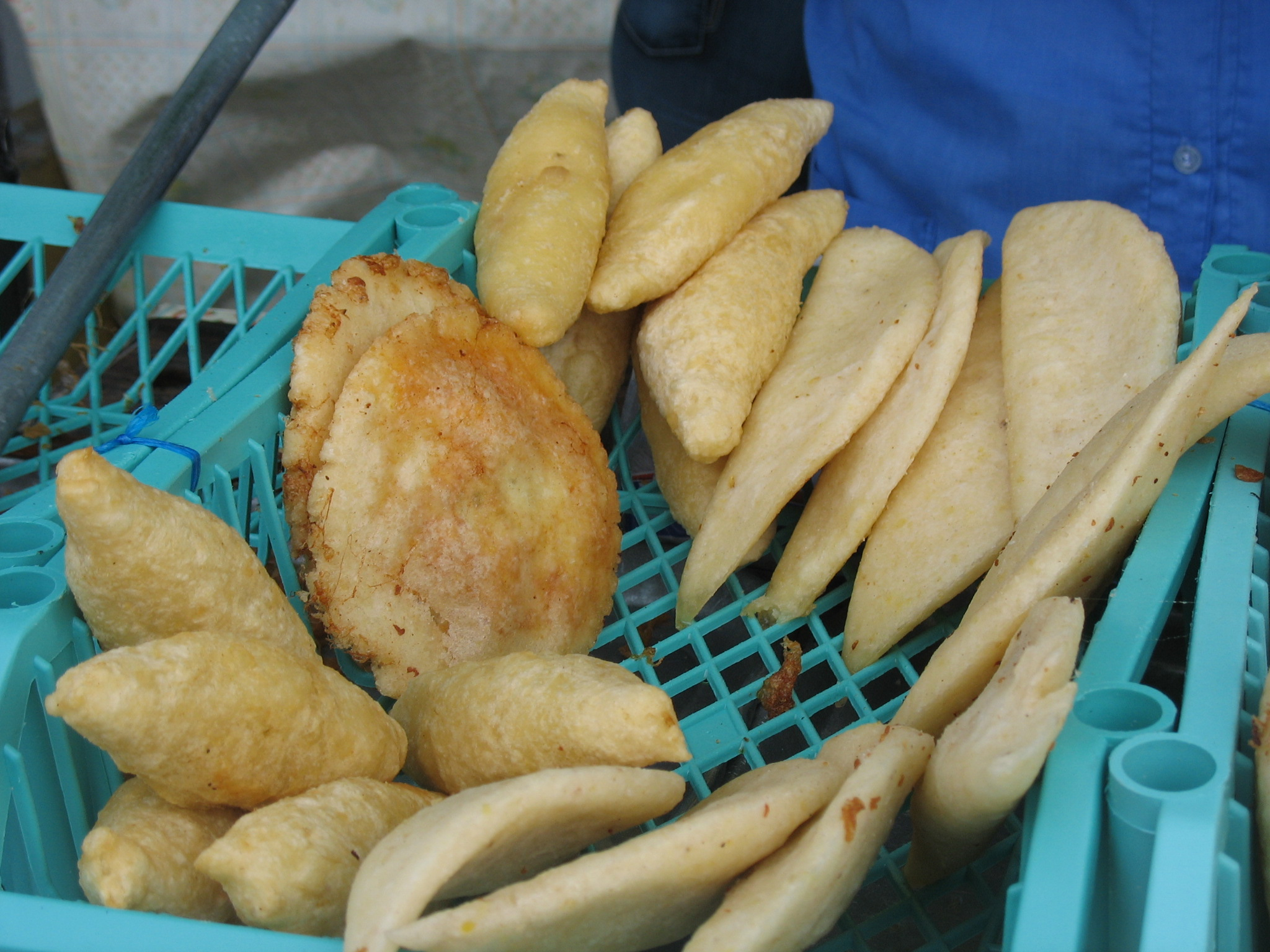 Carimañolas, empanadas, arepas with egg.